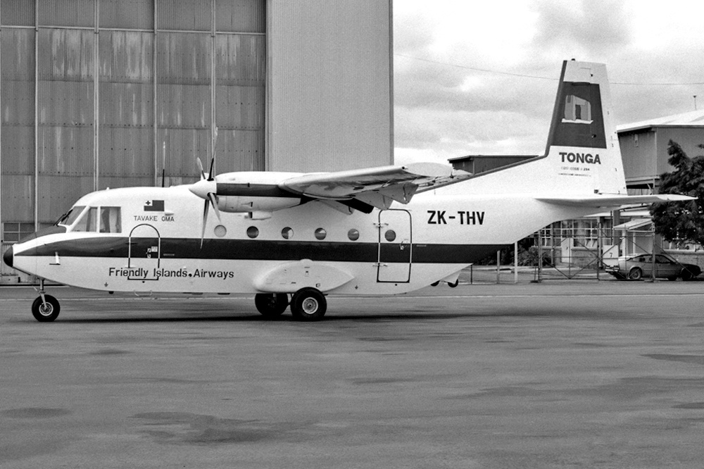 Friendly Islands Airways CASA C-212-200 Aviocar at Essendon Airport